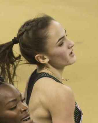 EKI10414EKI10440 halve finale 400m bolingo de witte miller